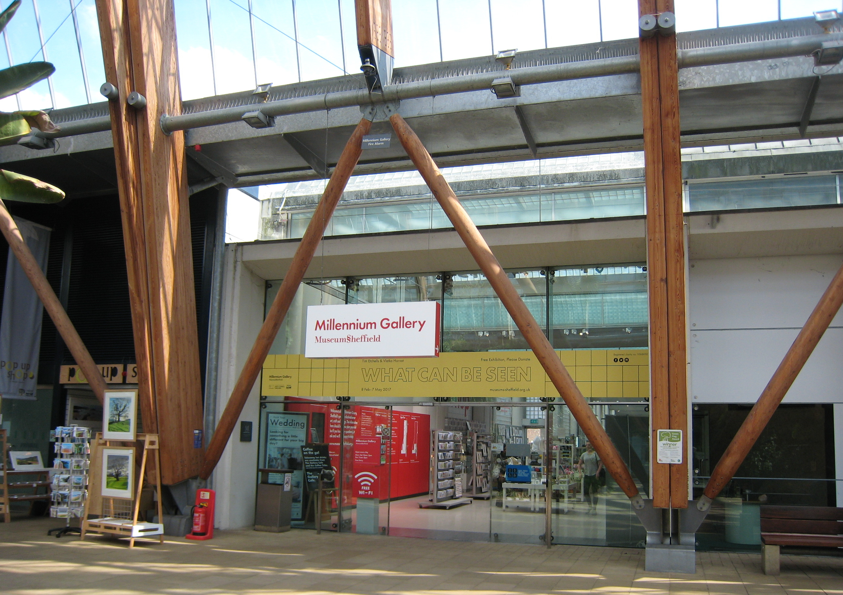 Entrance to the Millennium Gallery, Sheffield, via the Winter Gardens.